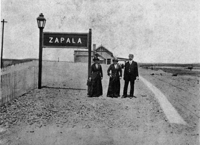 The Zapala train station in Neuquén province, the day it was inaugurated.